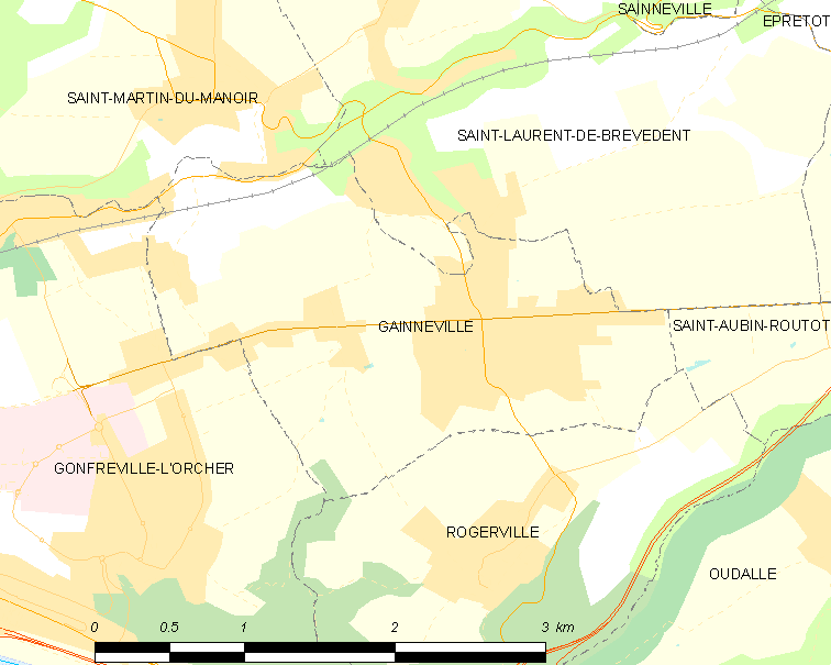 Map of French municipality Gainneville